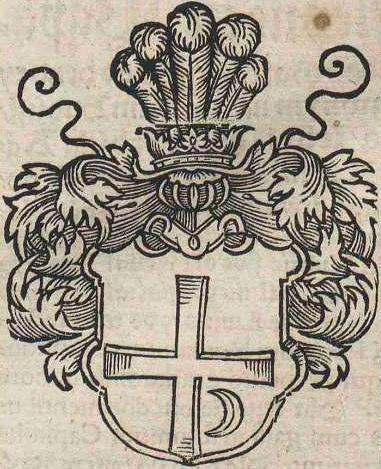 Tarnawa coat of arms by B. Paprocki, published in "Herby rycerstwa.."